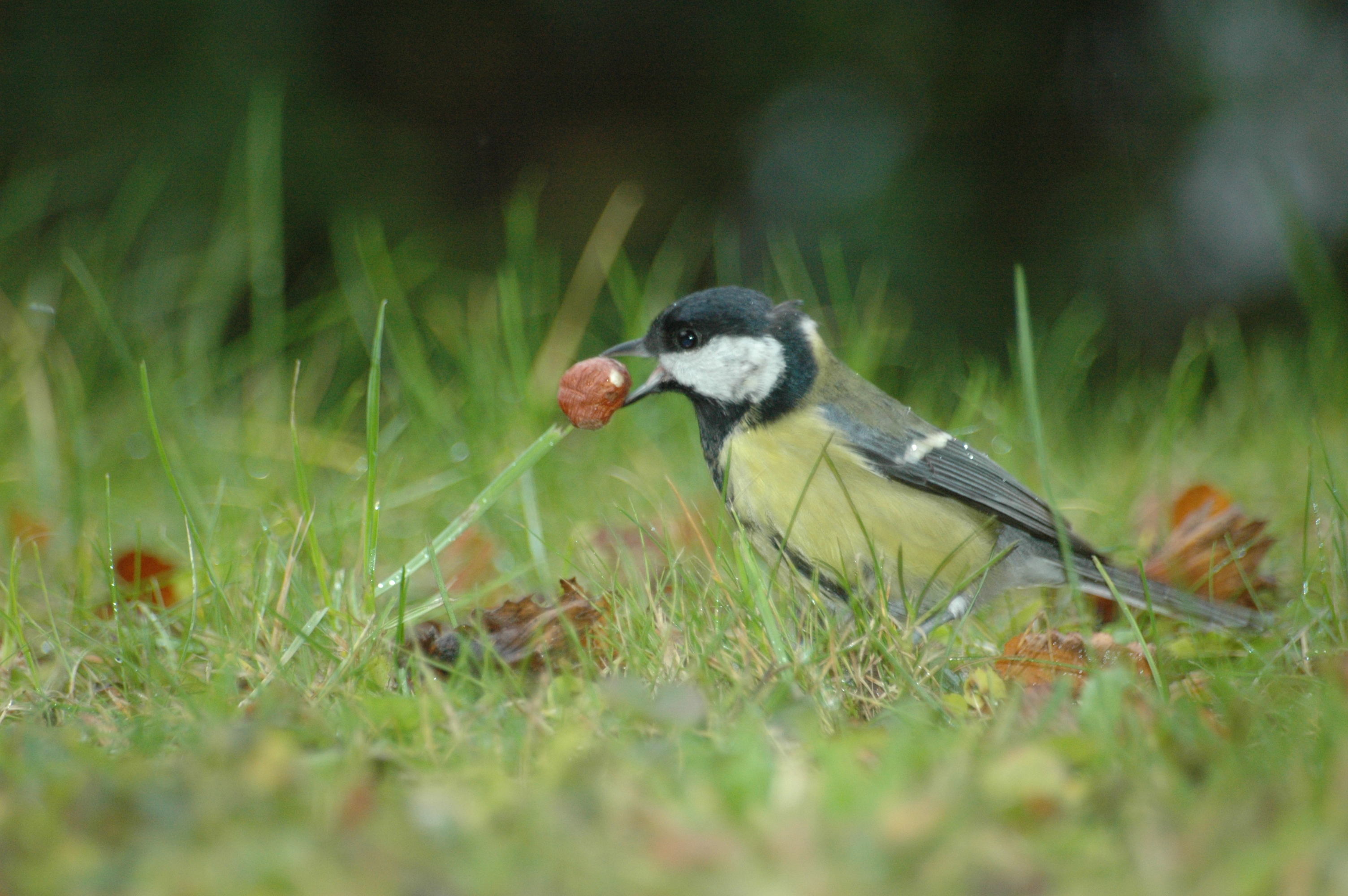 Great tit (Parus major), 55294 Bodenheim, Germany